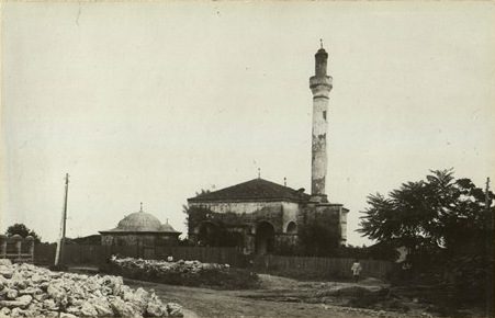 Bulgaria